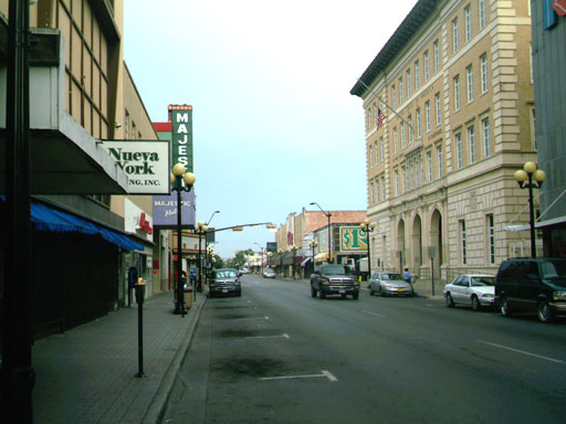 A picture of Downtown Brownsville on Elizabeth St. looking towards 10th St. Elizabeth St. has been a center for Brownsville commerce since the city's founding. Note: if there are any problems with this picture please contact James E. Zavaleta T C E 14:08, 12 September 2006 (UTC)